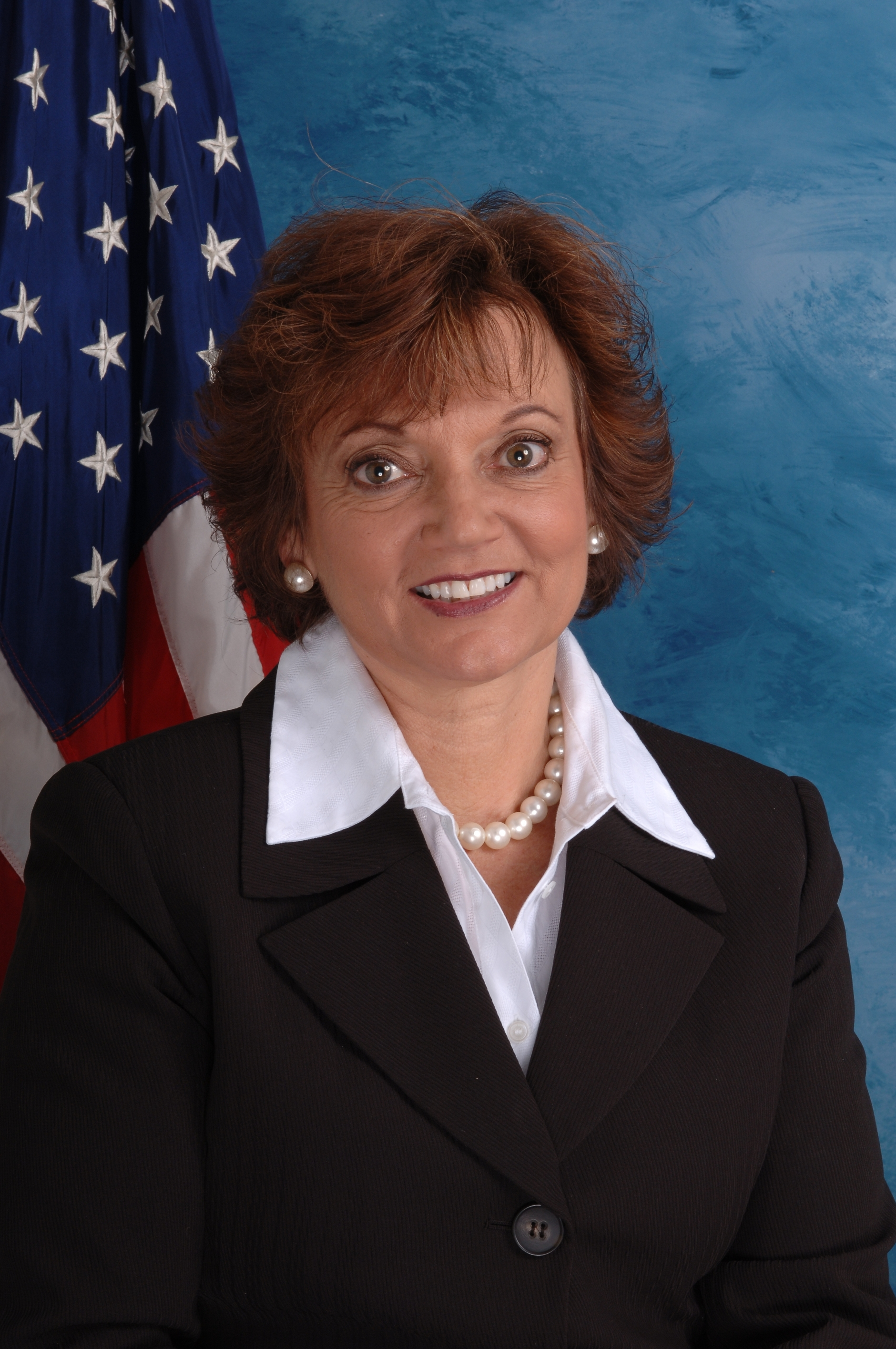 Debbie Halvorson, member of the United States House of Representatives.